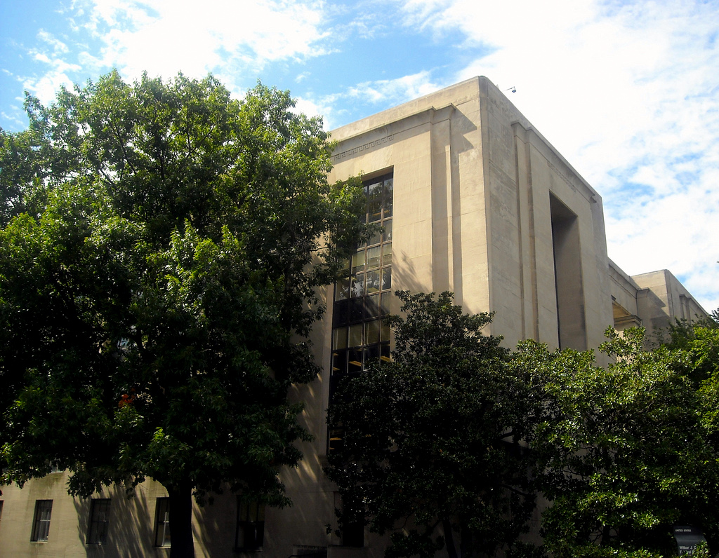 Wilbur J. Cohen Federal Building, home to the Voice of America, located at 330 Independence Avenue, SW in Washington, D.C. The structure is also known as the Social Security Administration Building and is listed on the National Register of Historic Places.